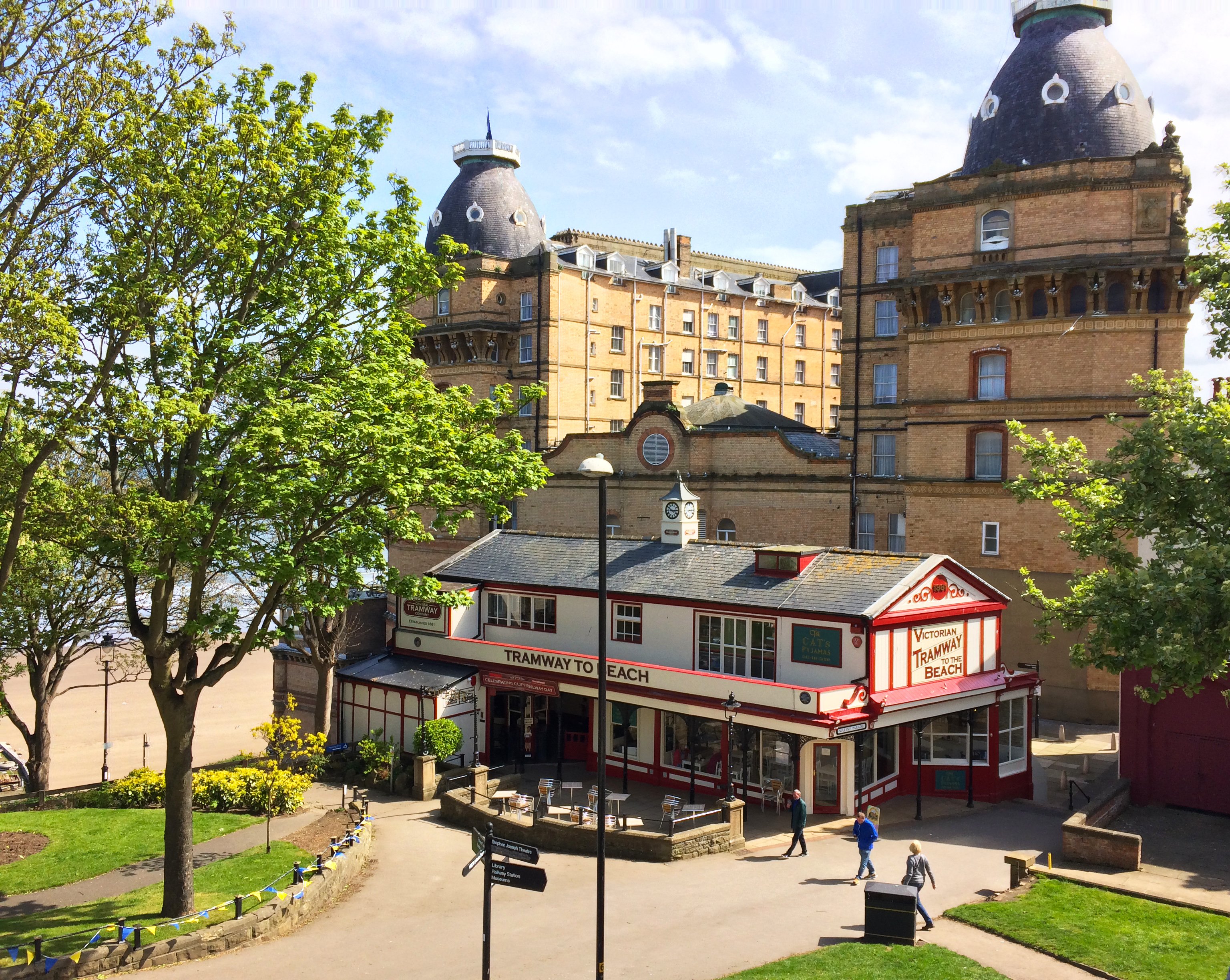 Central Tramway Company, Scarborough, Ltd. Victorian cliff railway built in 1881.